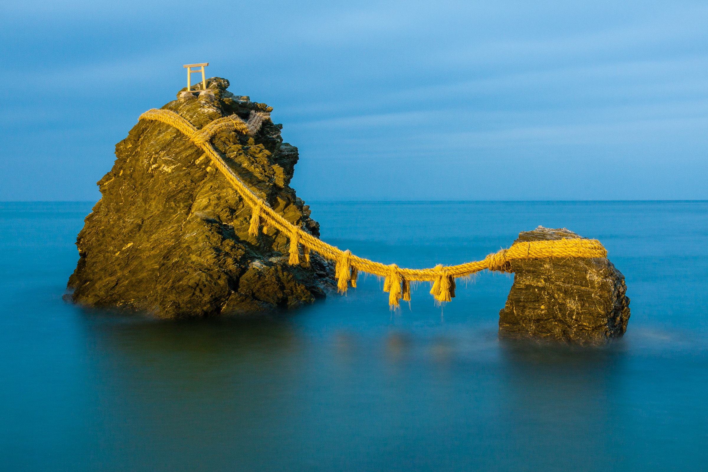 A picture of Meoto Iwa rocks at dusk, with some high tide. Long exposure on a tripod.